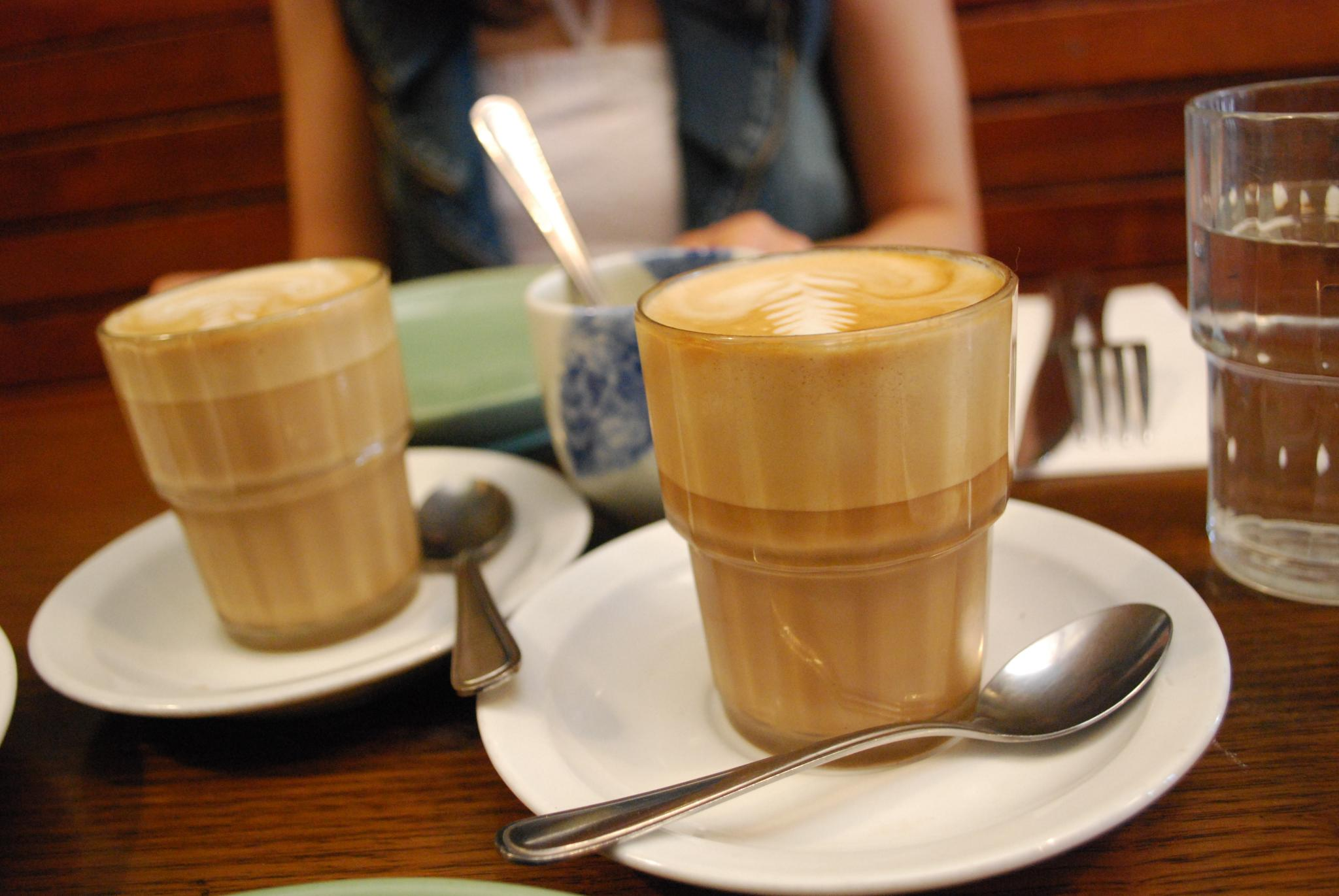 Soy Latte, Caffe Latte - Tom Phat AUD12.90 AUD3.80, AUD3.30